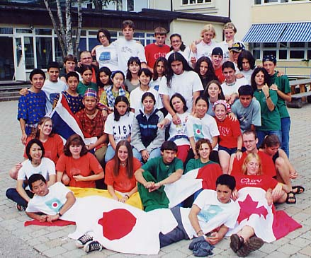 Example of a CISV Summer Camp program, Germany, 2000